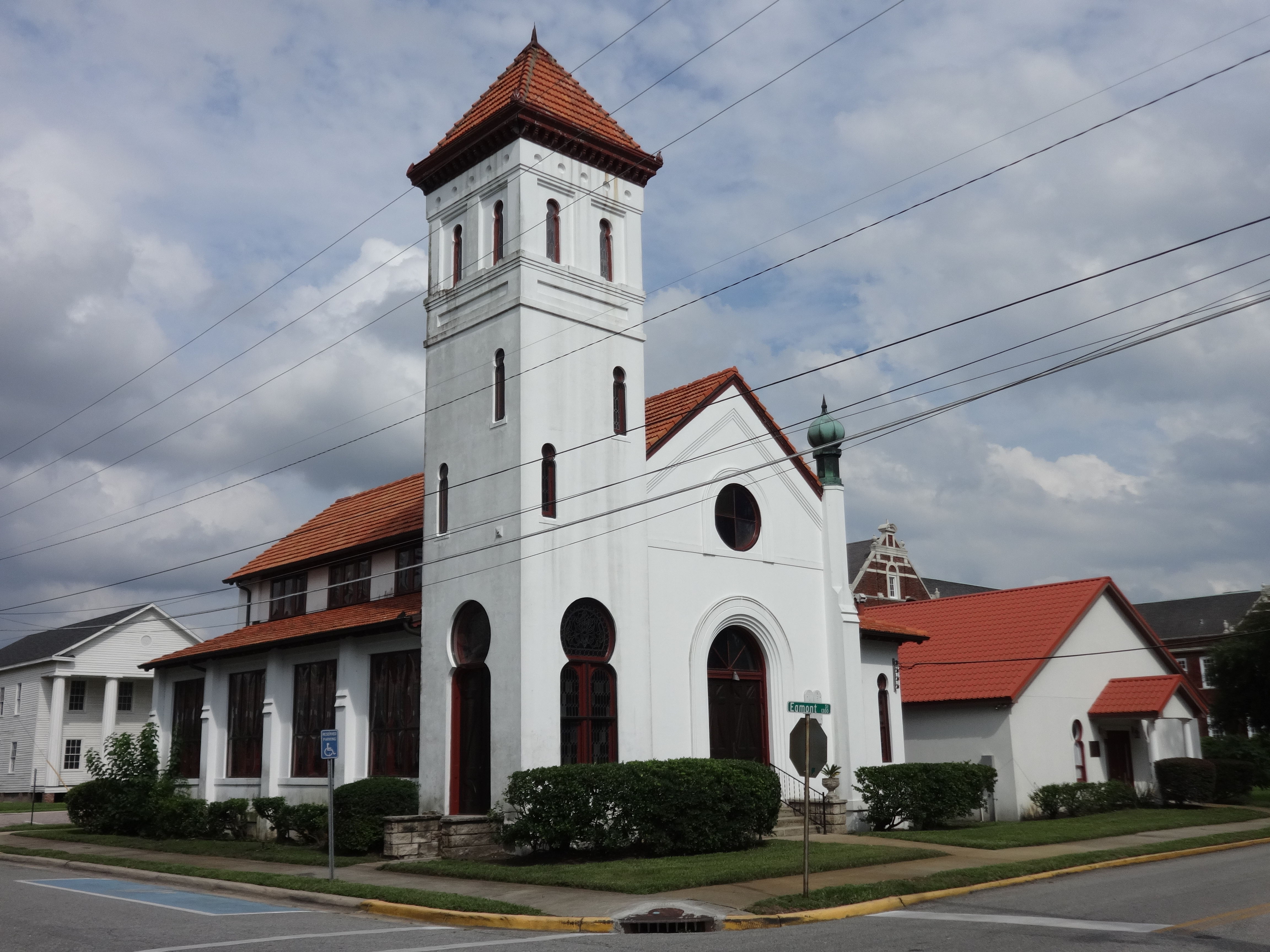 Temple Beth Tefilloh, Brunswick, Glynn County, Georgia